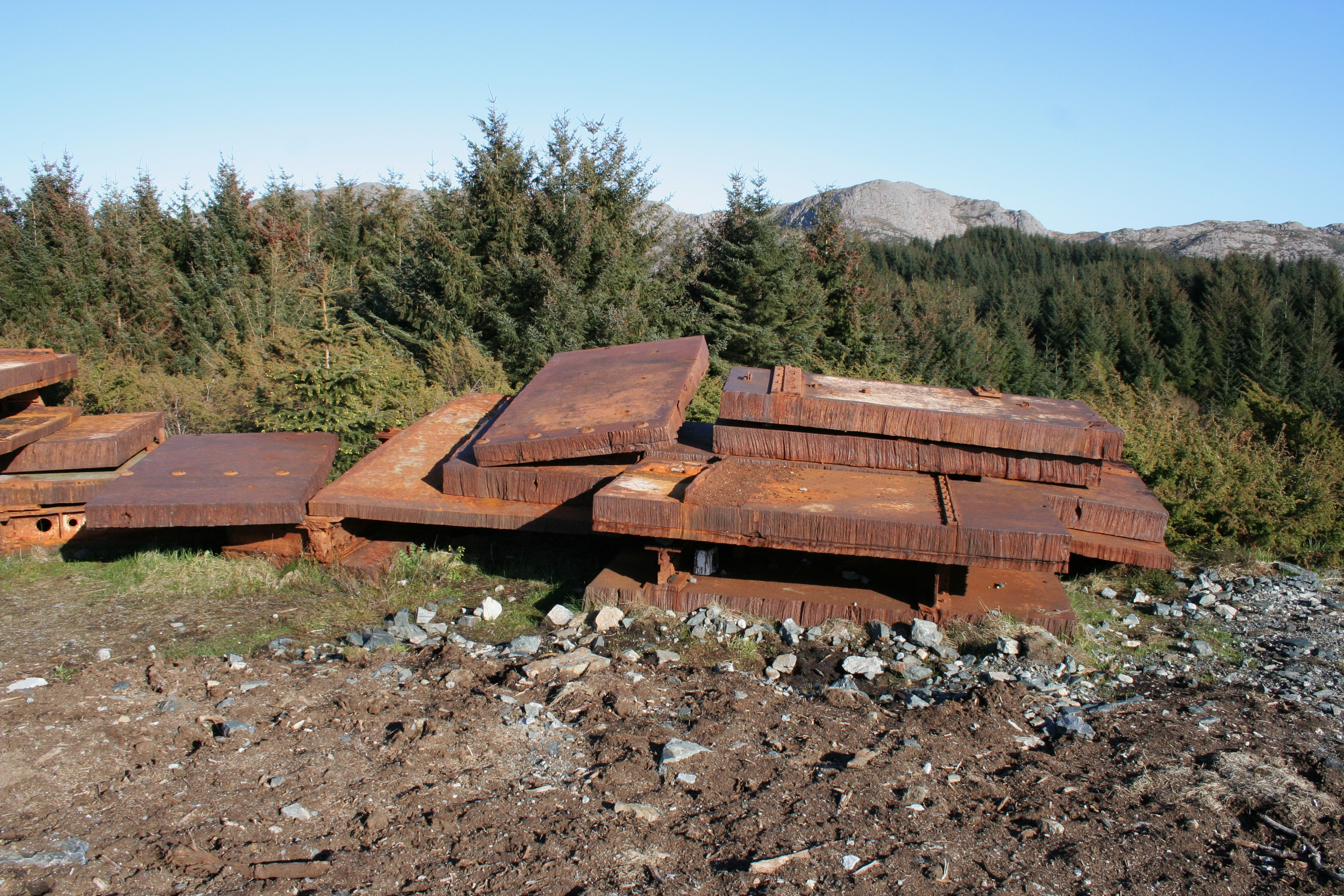 Old armour plating from the now removed gun tower at Fjell Festning, Sotra in Hordaland, Norway. This armour was fitted as extra armour to the already existing 358/190,5 mm armour, giving the gun crews protection from a total of 700/250 mm steel, front/sides.